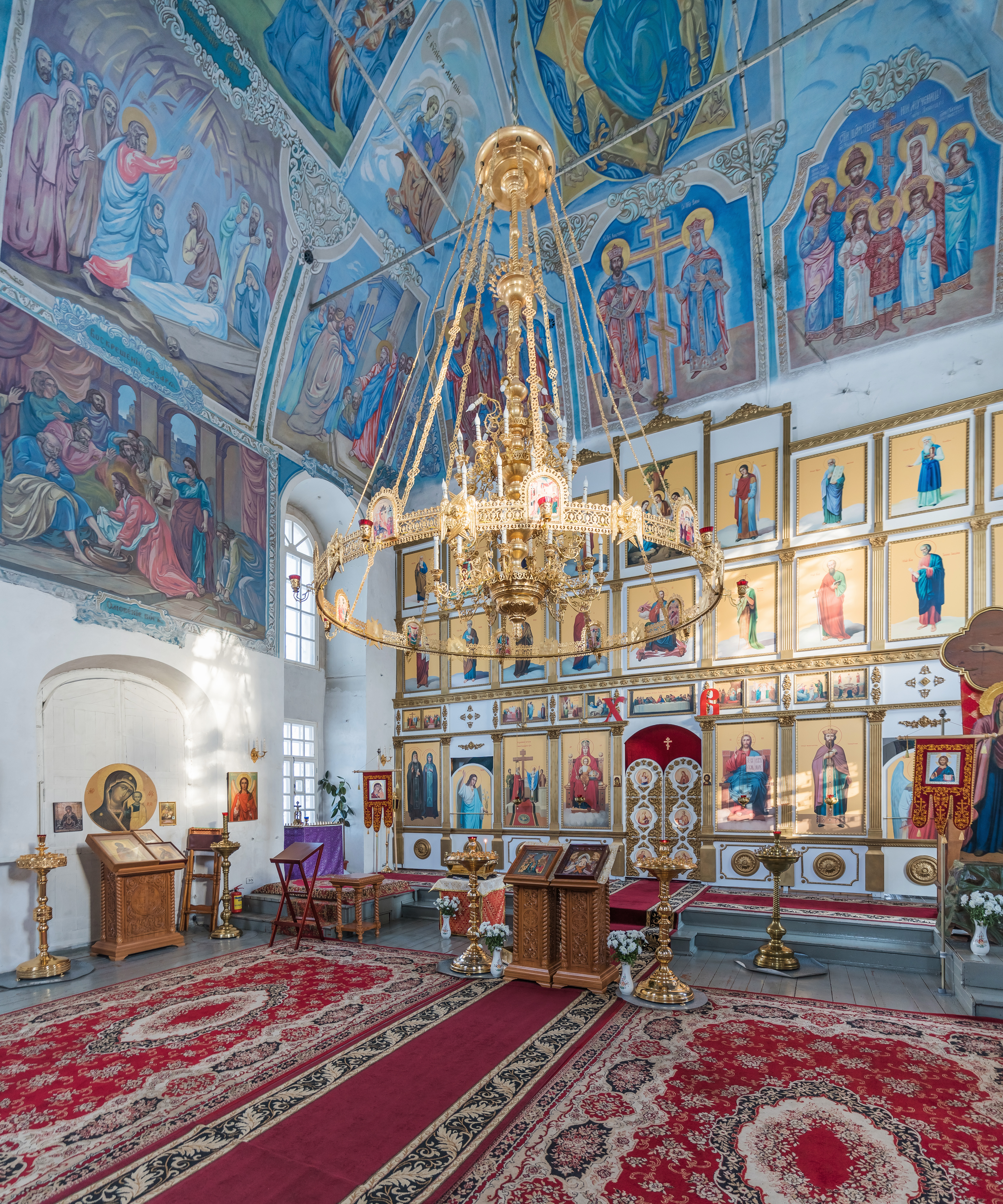 St. Constantine Church in Suzdal, Russia